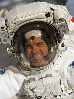 Astronaut Rex Walheim in space